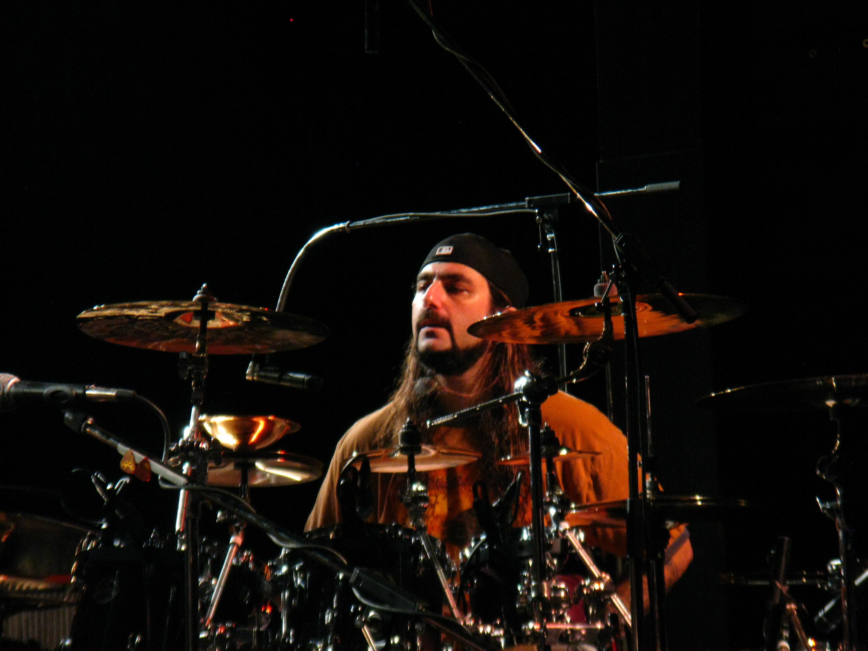 Transatlantic live in Stuttgart in 2010 - Mike Portnoy.